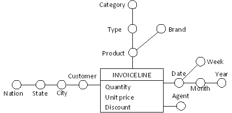 A simple fact schema for the invoice fact showing the basic constructs of the Dimensional Fact Model